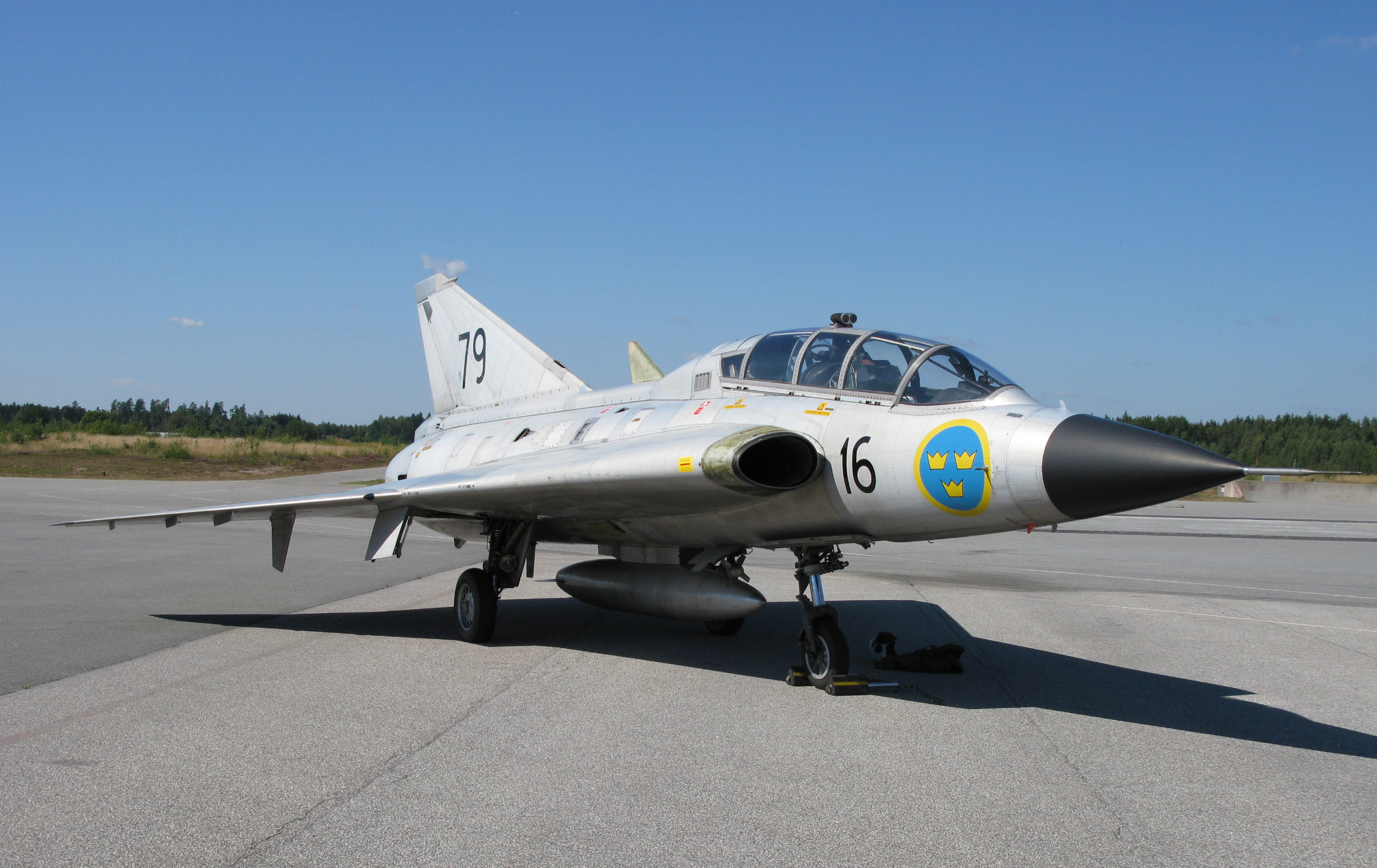 Saab Sk 35C Draken, civ reg SE-DXP, former Swedish Air Force s/n, and SAAB c/n, 35810. Operated by “Swedish Air Force Historic Flight”. A total of 25 J 35A aircraft were converted into two seated Sk 35C trainer version in the early 1960’s. Minor modification meant that the aircraft could easily be converted back to J 35A standard if necessary. As a trainer it had no armament. S/n 35810 started out as J 35A, s/n 35019. This aircraft was decommissioned from the Swedish Air Force in 1997 and transferred to the Swedish Air Force Museum. It has been restored and is flying under civil registration since 2014. Event: Örebro Airshow 2015.